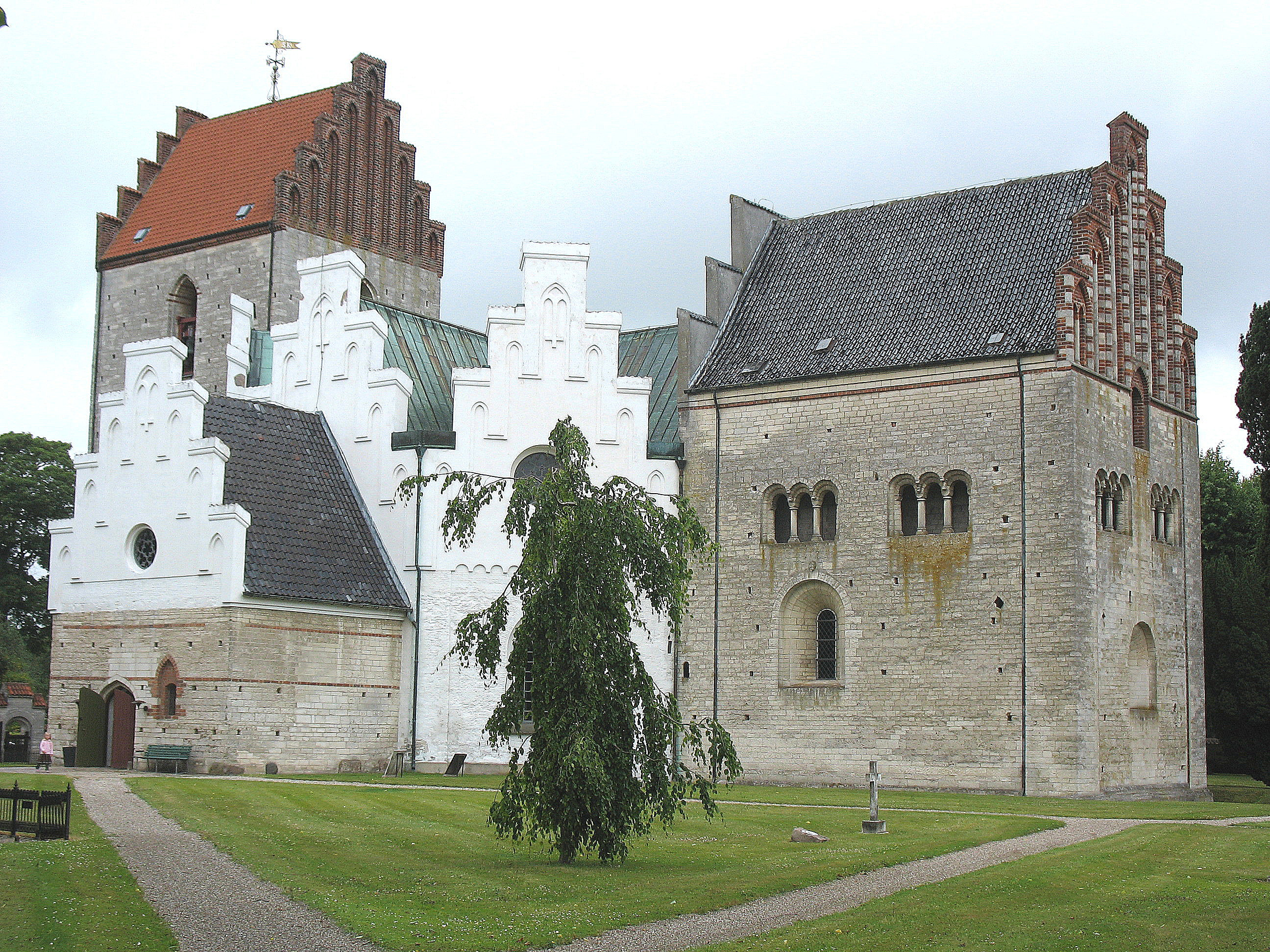 The church "Sankt Katharina Kirke" in the small town "Store Heddinge" located in South Zealand, east Denmark.